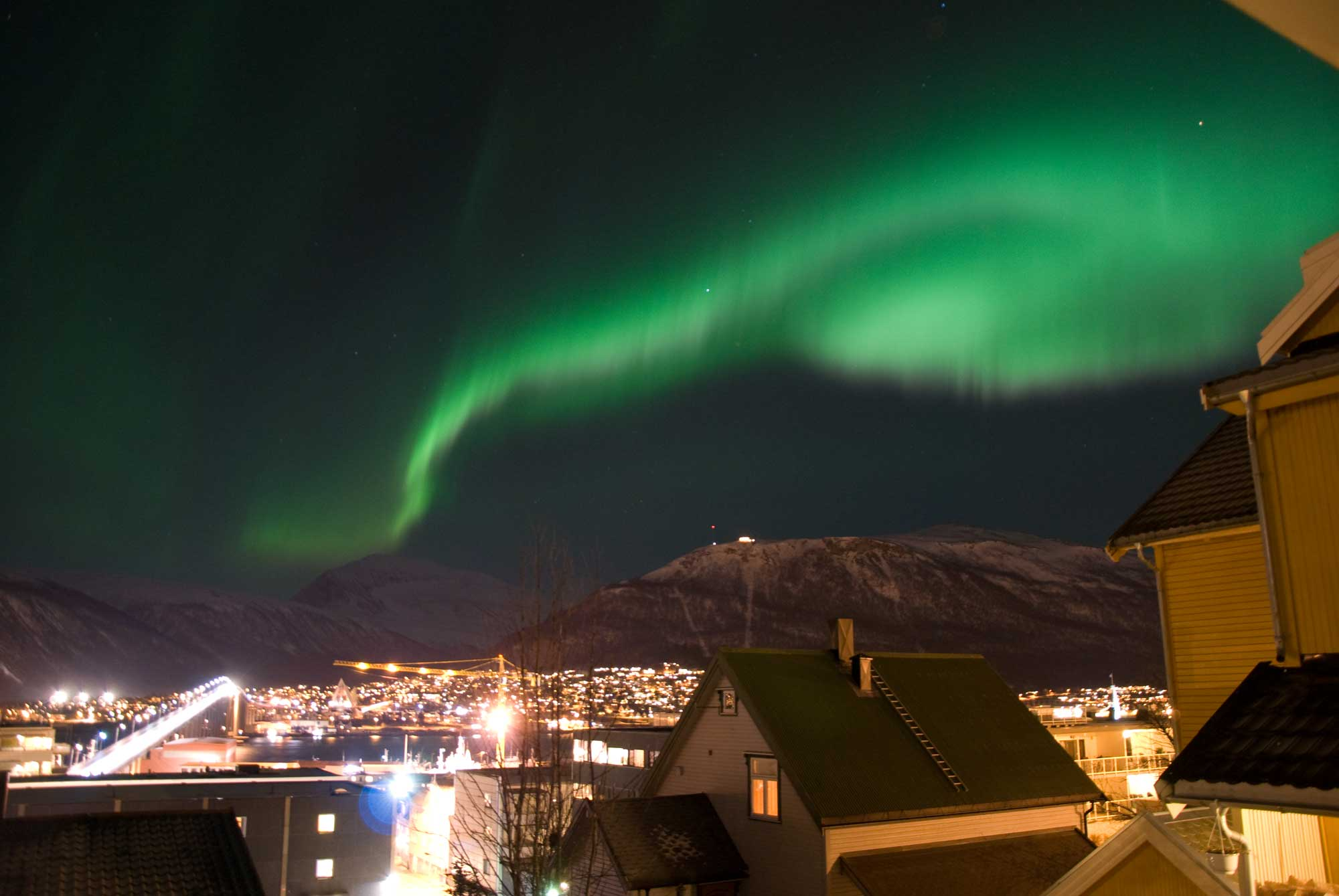 Northern Lights over Tromsø 31st of January 2012.